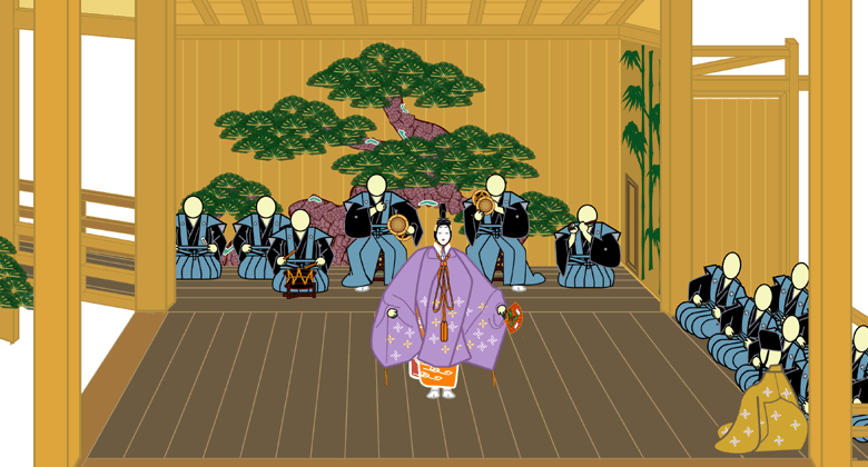 Illustration of positions of players on a Noh（能）stage. Center: shite (main actor) wearing mask and holding fan. Front right: waki. Right: eight-person jiutai (chorus). Back: four hayashi-kata (musicians), from right to left: fue (flute), kozutsumi (shoulder drum), ohzutsumi (hip drum) and taiko. Left rear: two kohken (stage hands).